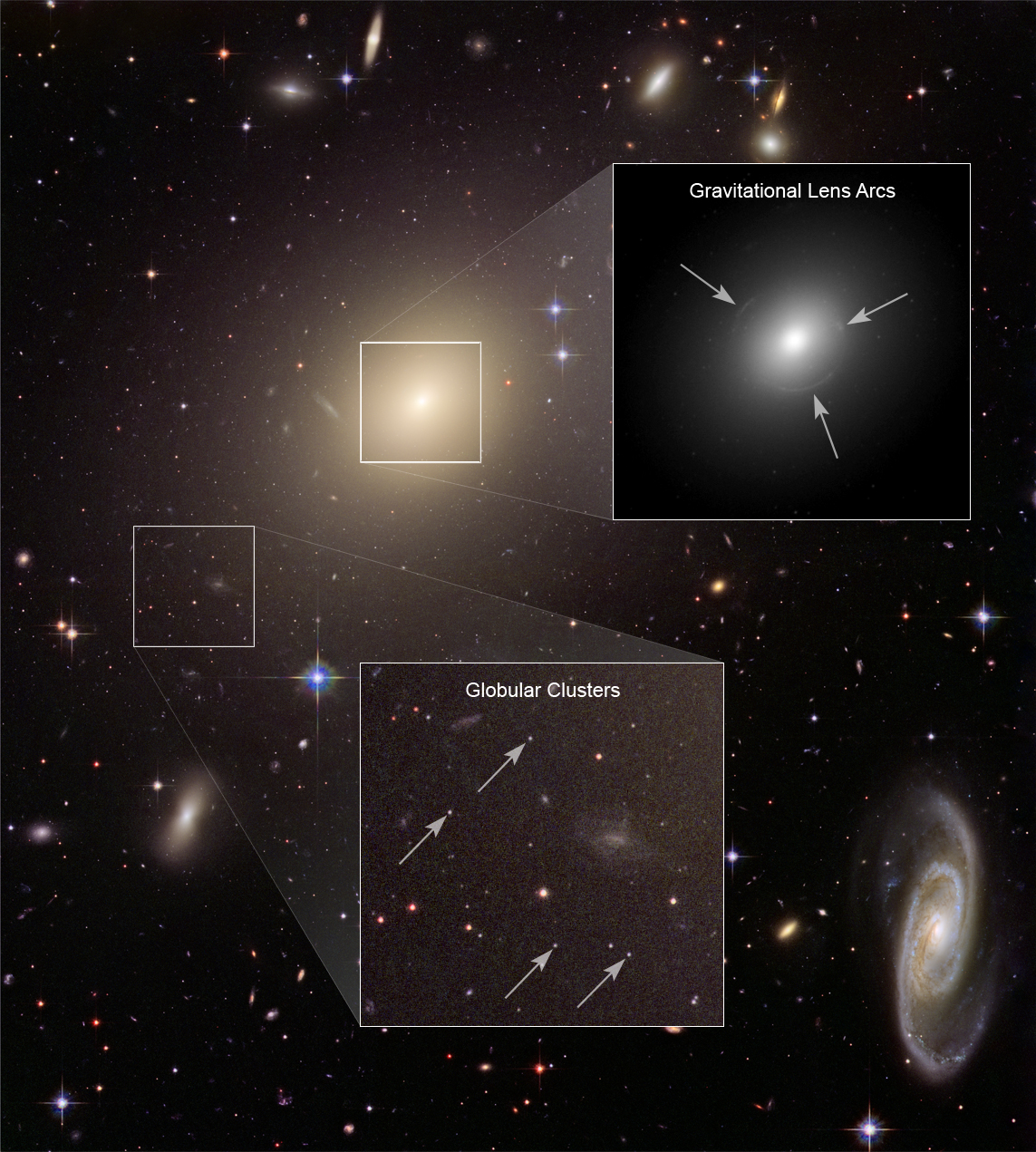 This NASA Hubble Space Telescope image shows the diverse collection of galaxies in a galaxy cluster called Abell S0740, located more than 450 million light-years away in the constellation Centaurus. The giant elliptical galaxy ESO 325-G004 looms large at the cluster's center. This galaxy is as massive as 100 billion suns. Hubble resolves thousands of globular star clusters orbiting ESO 325-G004. Globular clusters are compact groups of hundreds of thousands of stars that are gravitationally bound together. At the galaxy's distance they appear as pinpoints of light contained within the diffuse halo. Other elliptical and spiral galaxies appear in the image. The photo was made from images taken using Hubble's Advanced Camera for Surveys in January 2005 and February 2006. Object Name: ESO 325-G004, Abell S0740 Object Description: Giant Elliptical Galaxy and its Host Galaxy Cluster Position (J2000): R.A. 13h 43m 33s.30 Dec. -38° 10' 34".0 Constellation: Centaurus Distance: Approximately 463 million light-years (142 Megaparsecs) Dimensions: This image is roughy 2.9 arcminutes (385,000 light-years or 120 kiloparsecs) wide.